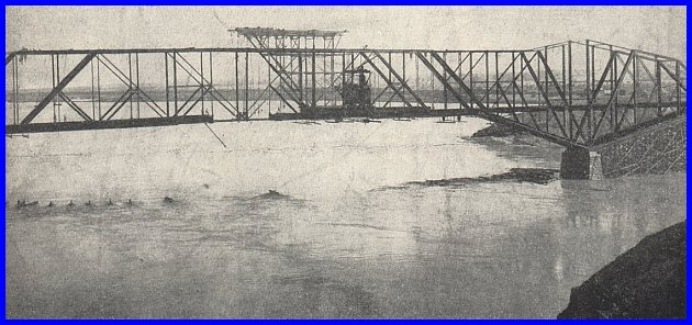 Atlantic & Pacific Railroad Bridge over the Colorado River in 1890